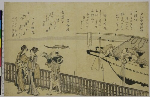 Waling across the Sumida-Rivrer and ships